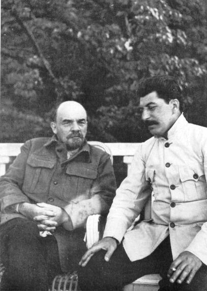 One of the several photographs (File:19220900-lenin stalin gorky-02.jpg, File:19220901-lenin stalin at gorki.jpg) of Lenin and Stalin in Gorki in September 1922, taken by Maria Ilyinichna Ulyanova.